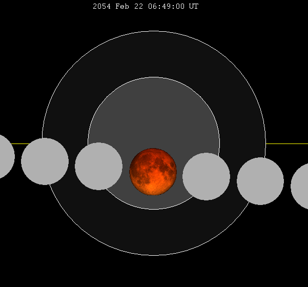 February 2054 lunar eclipse chart of moon's path through the earth's shadow. thumb